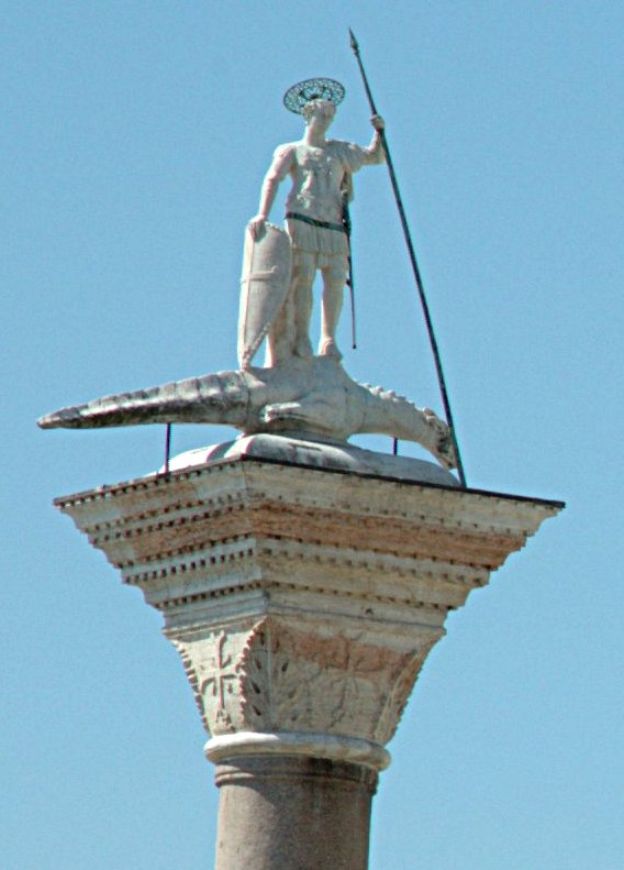 Statue of San Teodoro (Theodore) on a crocodile/drake. Venice, Italy.